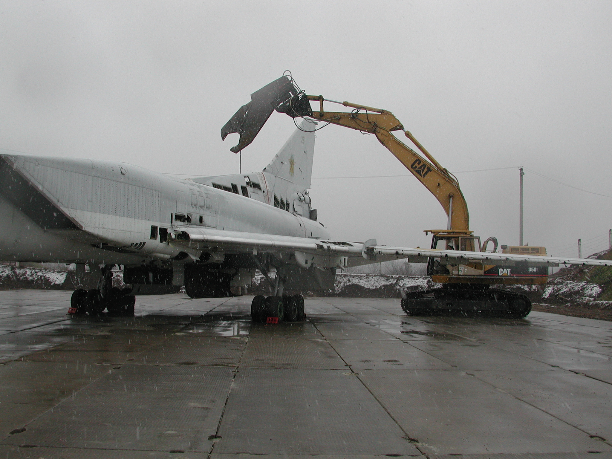 Original, wrong Text: A Ukrainian Tupolew TU-22M (NATO-Codename: „Backfire“) Bomber is dismantled through assistance provided by the Cooperative Threat Reduction Program implemented by the Defense Threat Reduction Agency.